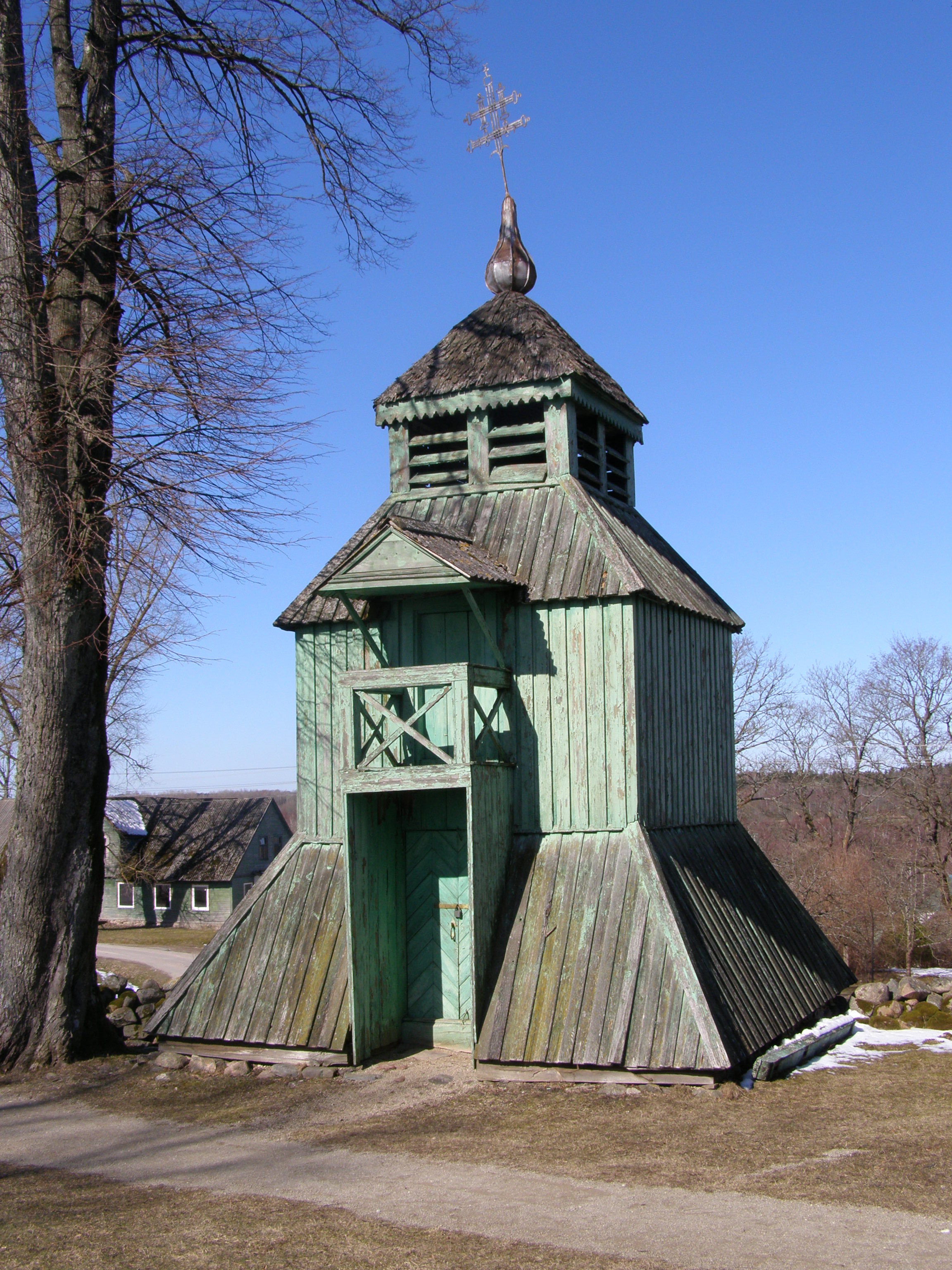 Kalnalis, Kretinga district, Lithuania